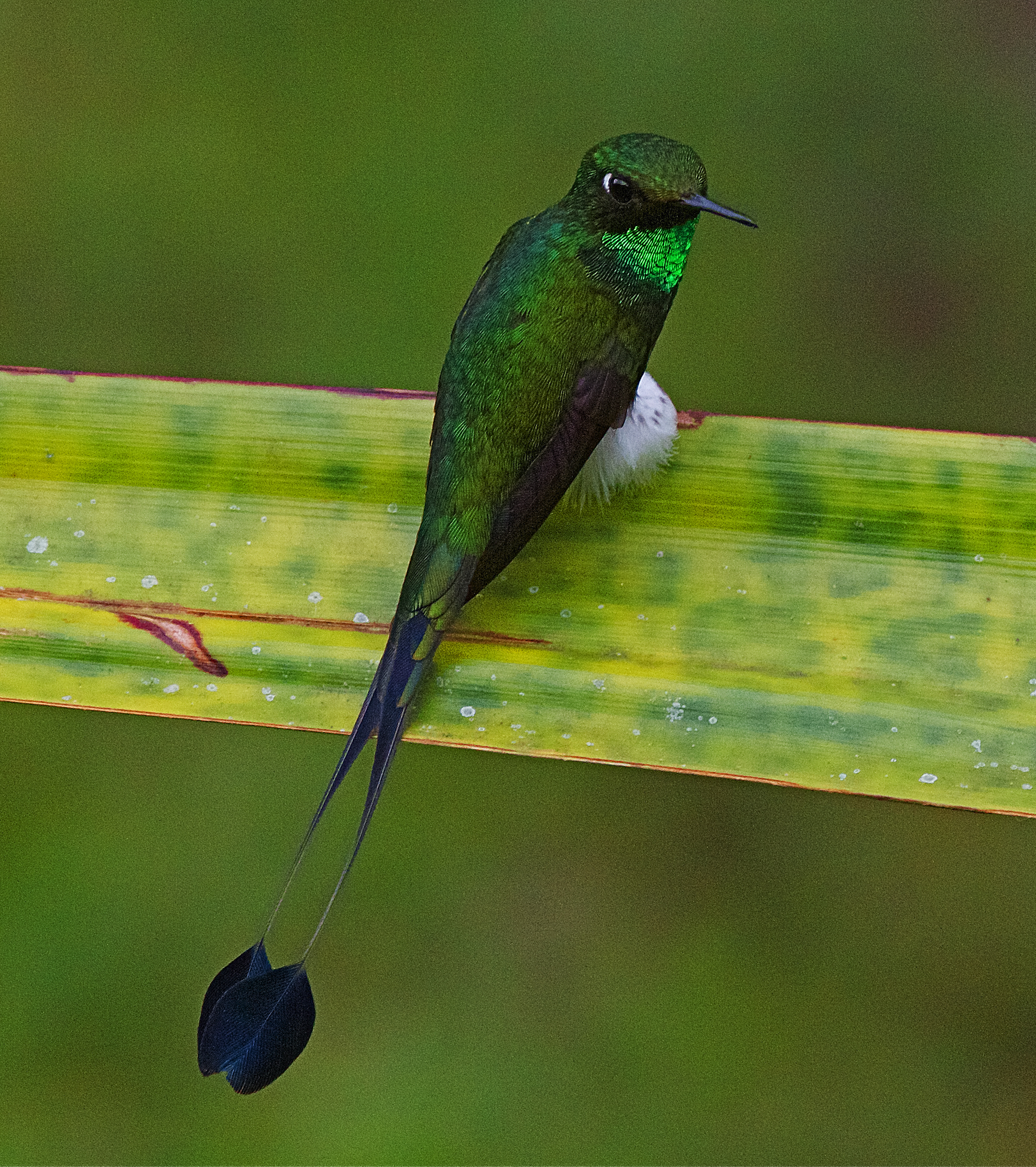 Booted Racket-tail photo taken in the lower Tandayapa Valley, NW Ecuador.